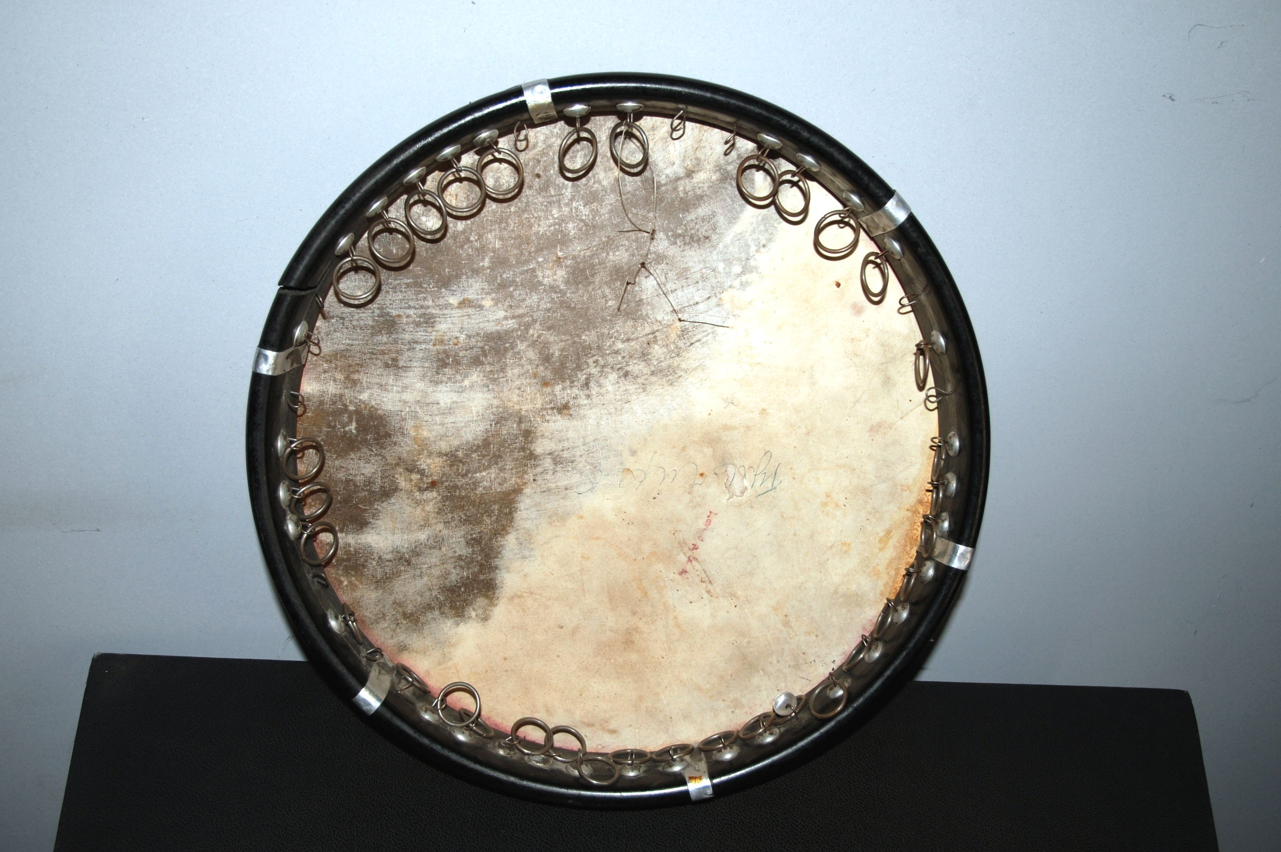 Daira, Ziyadullo Shahidi Museum, Dushanbe, Tajikistan